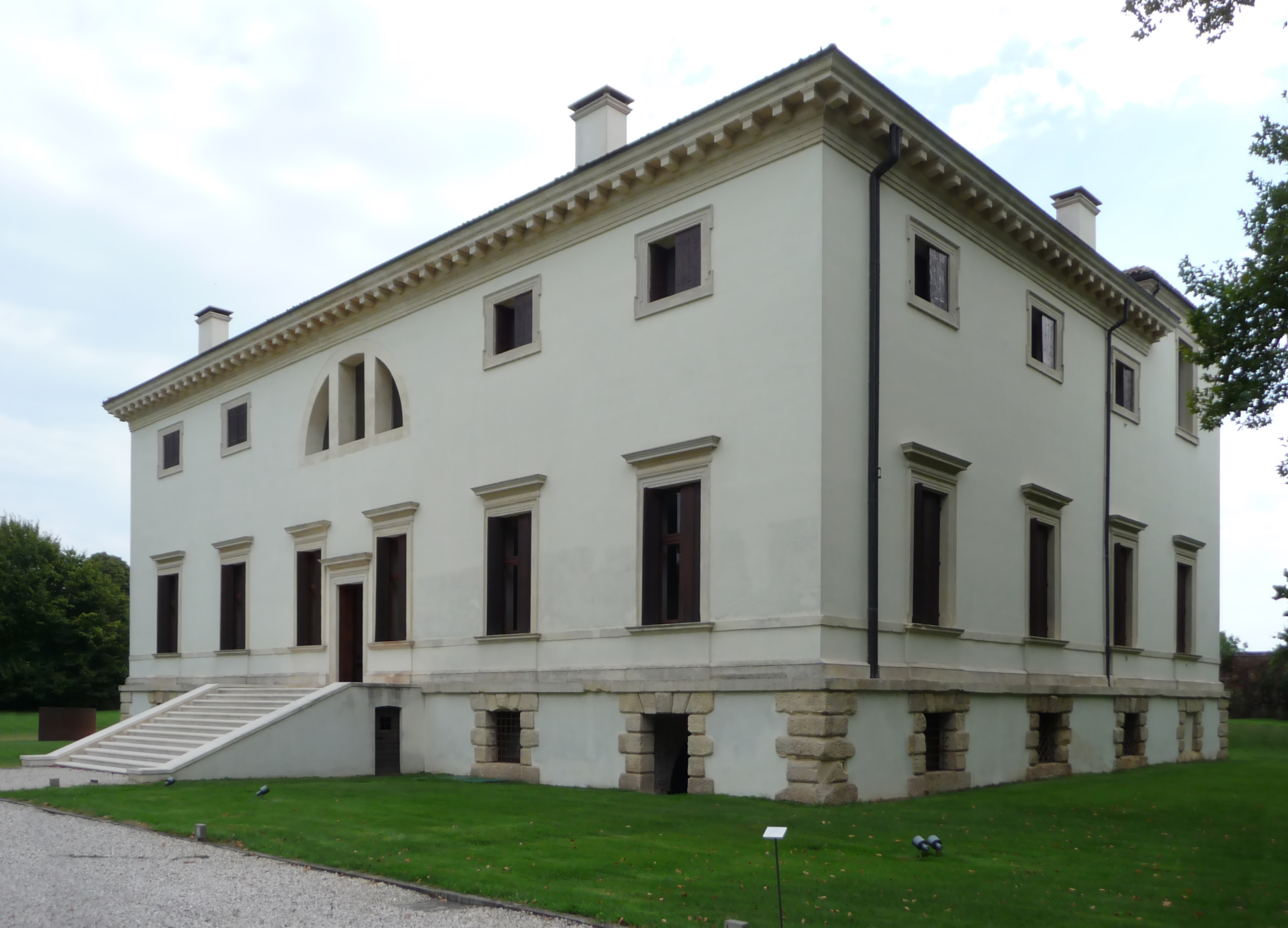 The Villa Pisani is a patrician villa designed by Andrea Palladio, located in Bagnolo di Lonigo in the Veneto region of Italy. (→Villa Pisani (Bagnolo))